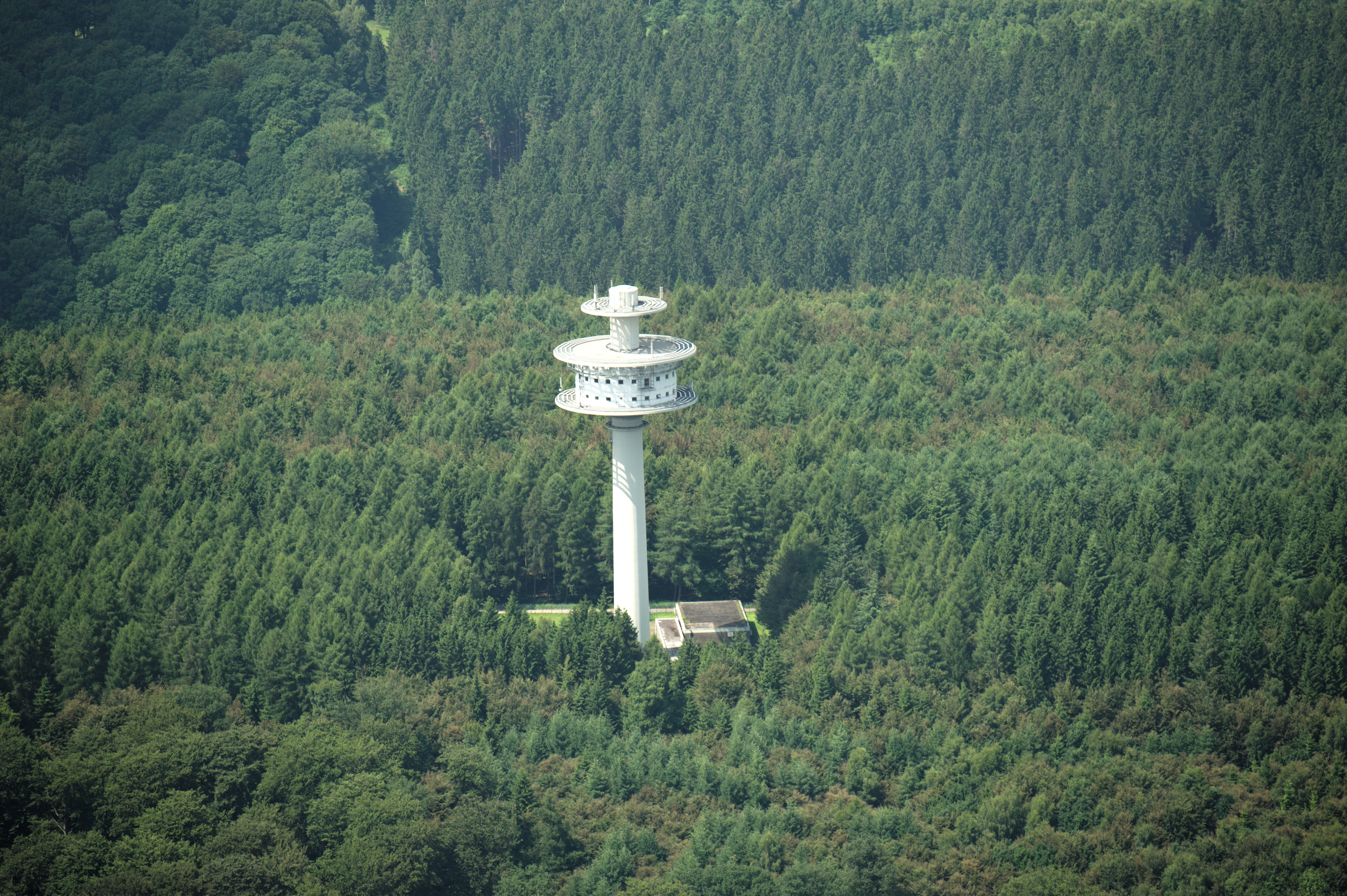 Fotoflug Sauerland-Ost: Fernmeldeturm Allenberg in Brilon. The making of this document was supported by the Community-Budget of Wikimedia Germany.